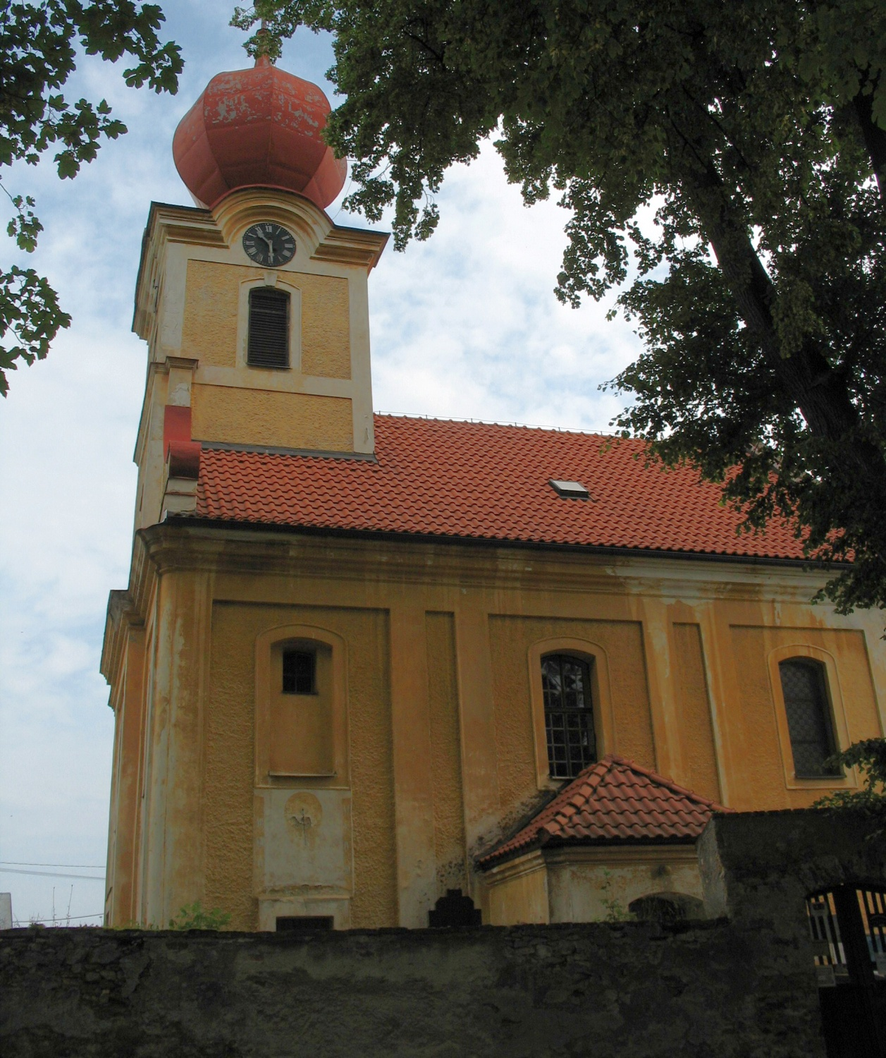 The Church of Saints Philip and James in Šumavské Hoštice, Prachatice District, Czech Republic